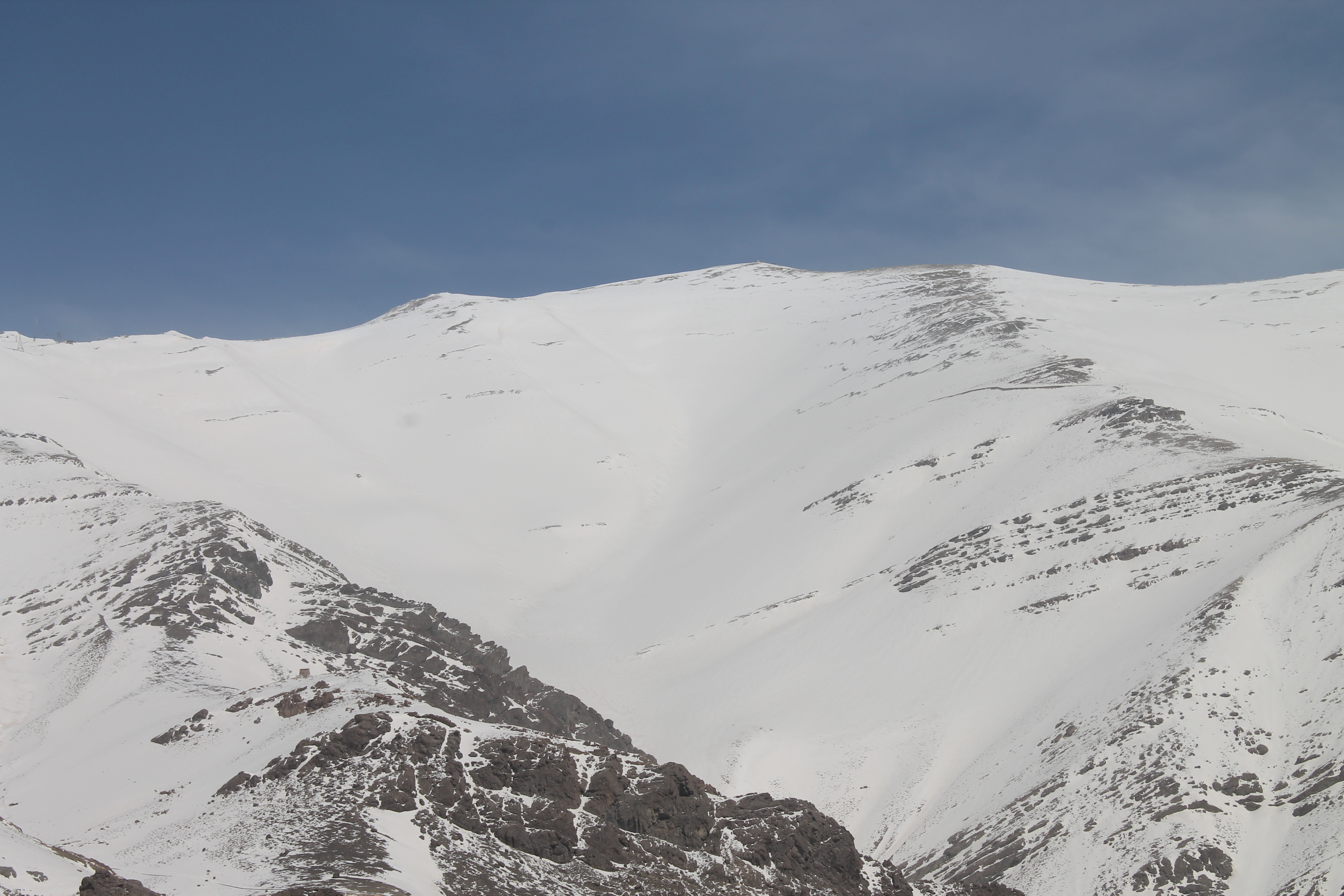 tochal peak / march 2013